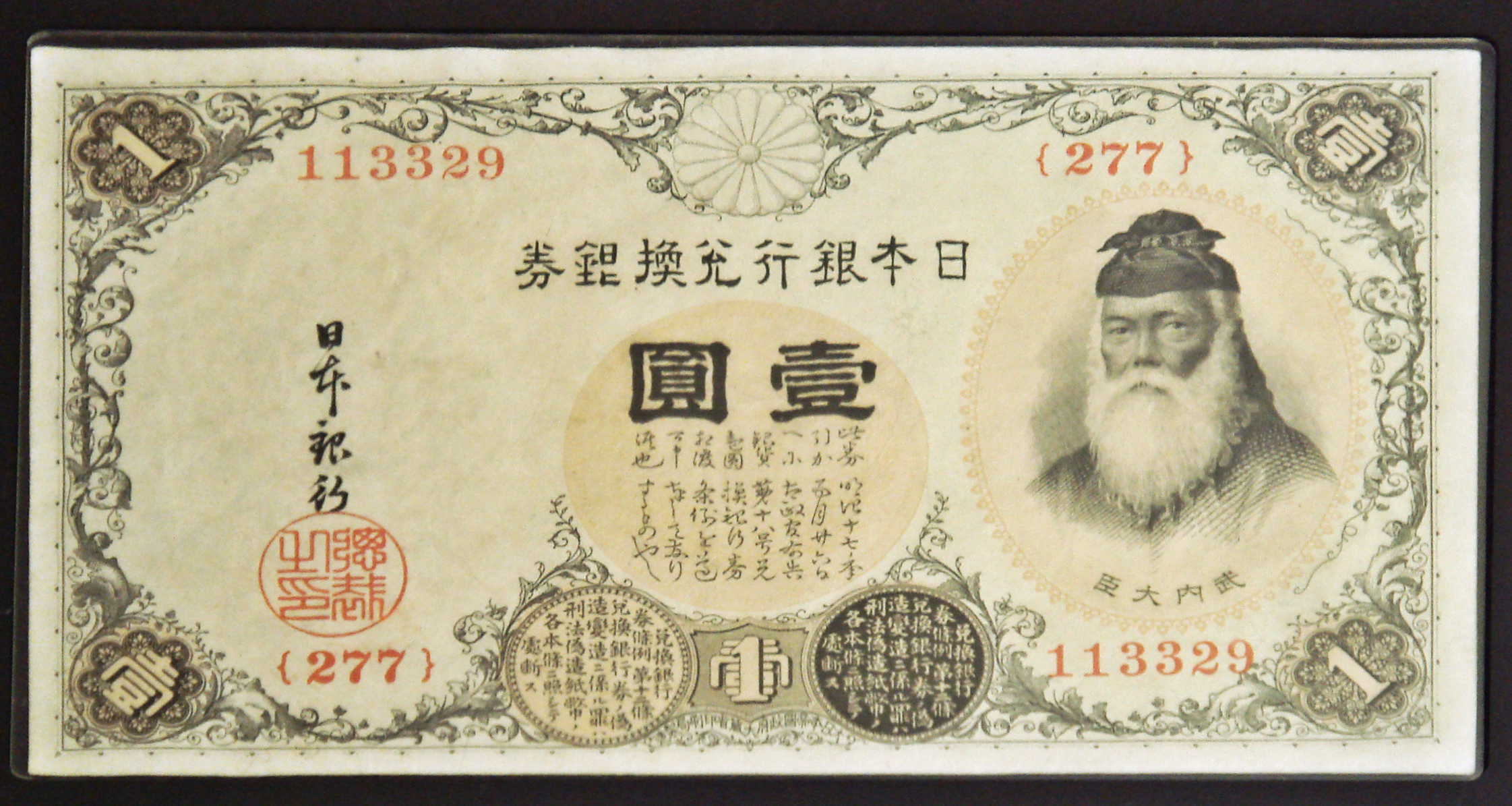 Gold_standard_one_yen_banknote_1916_Japan